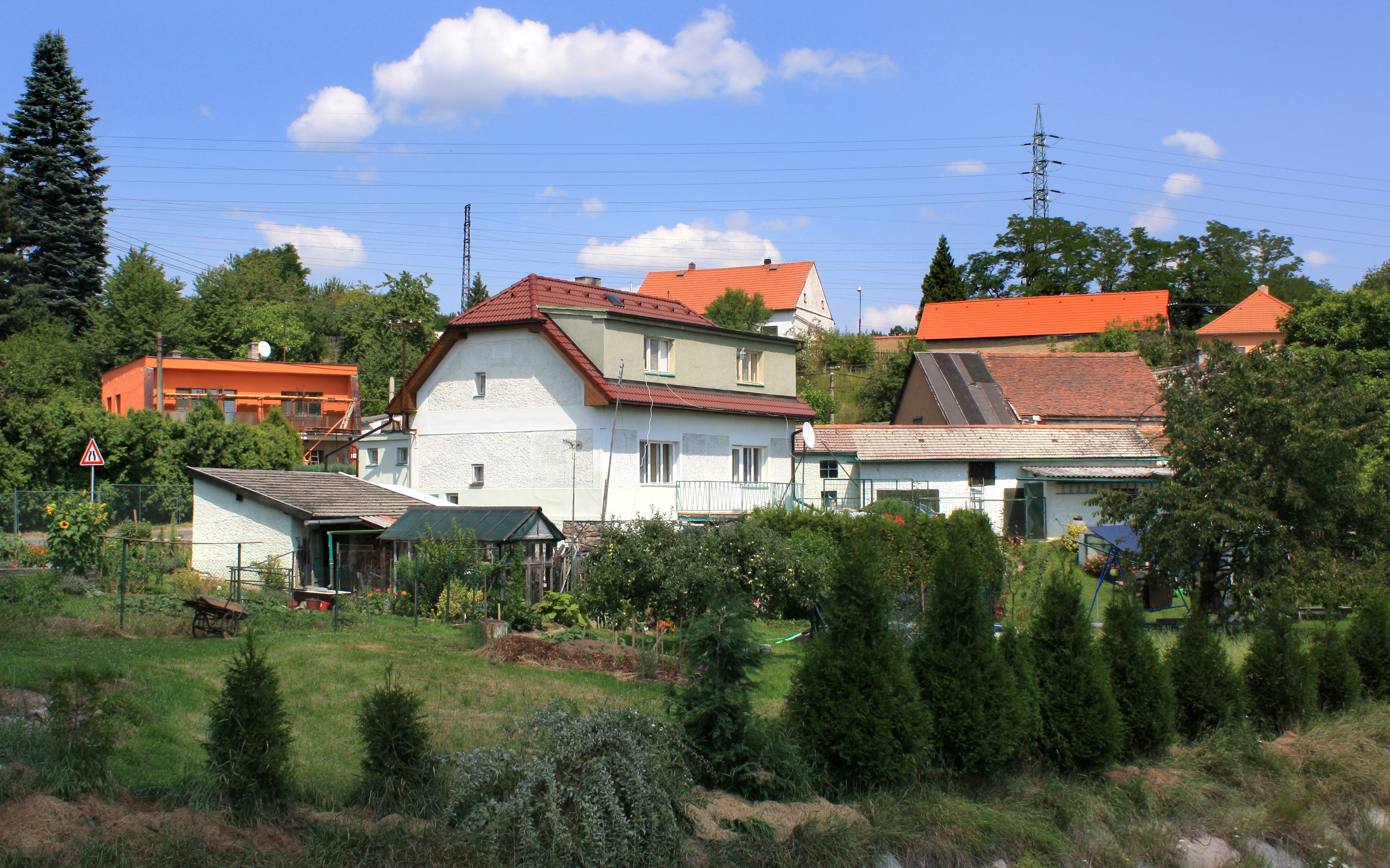 North part of Nová Huť, part of Hrádek, Czech Republic